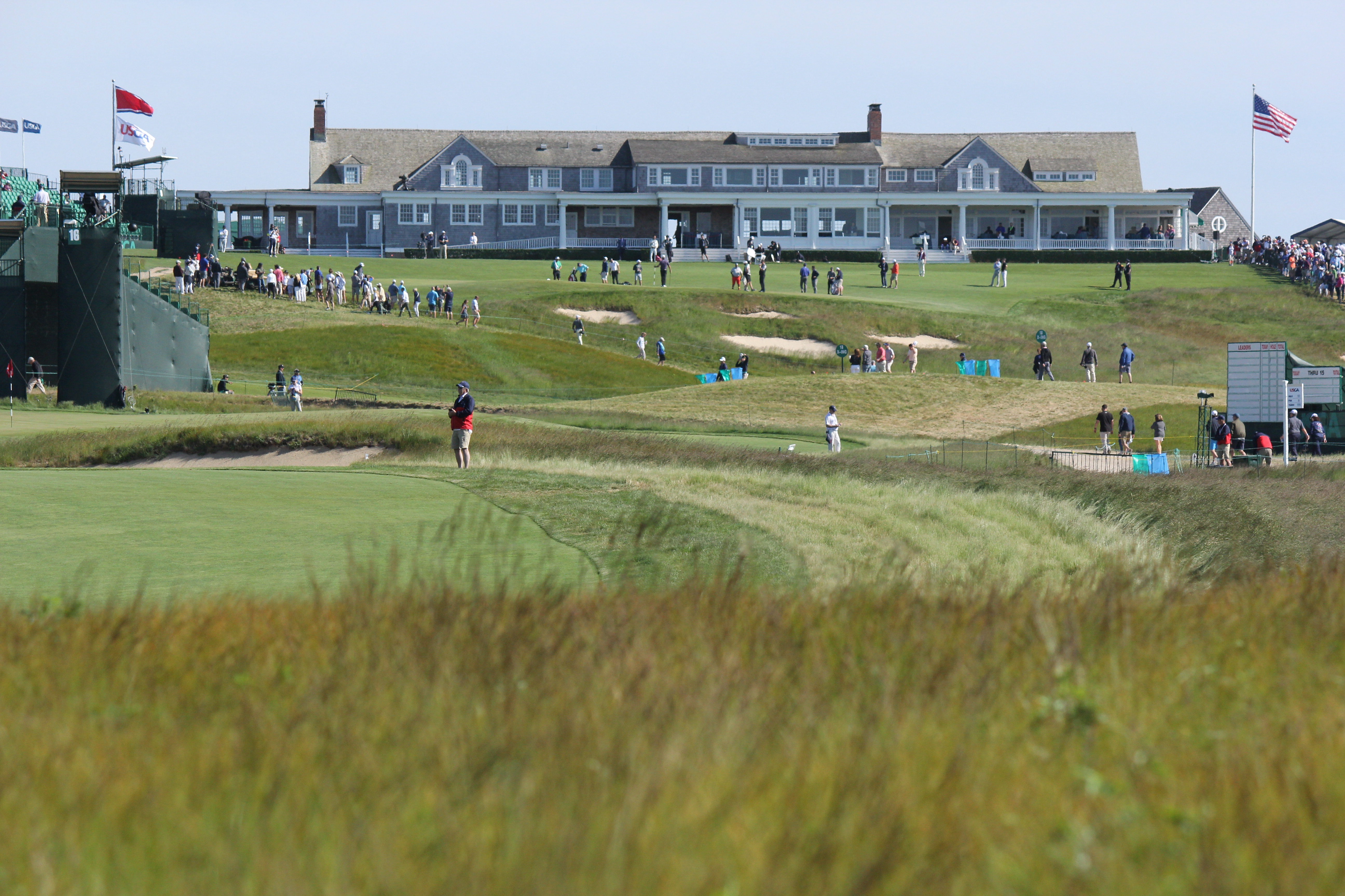 Shinnecock Hills Golf Club at the 2018 US Open